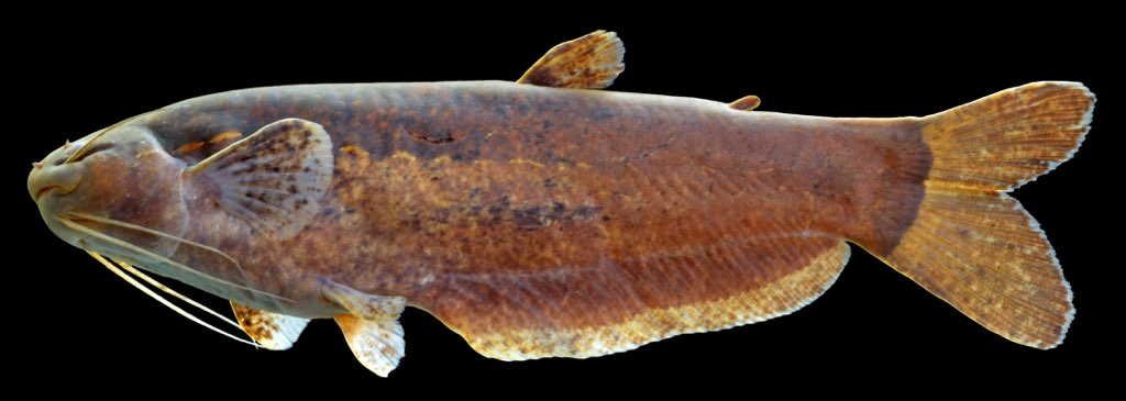 Helogenes marmoratus GUY14-31 89mm